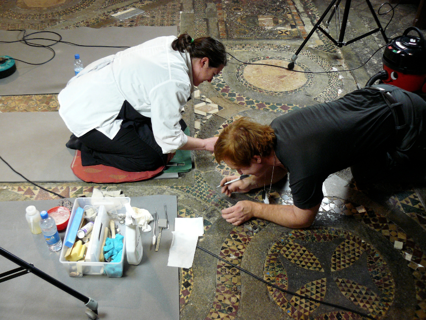 A conservation team work on the Cosmati pavement at Westminster Abbey, London.